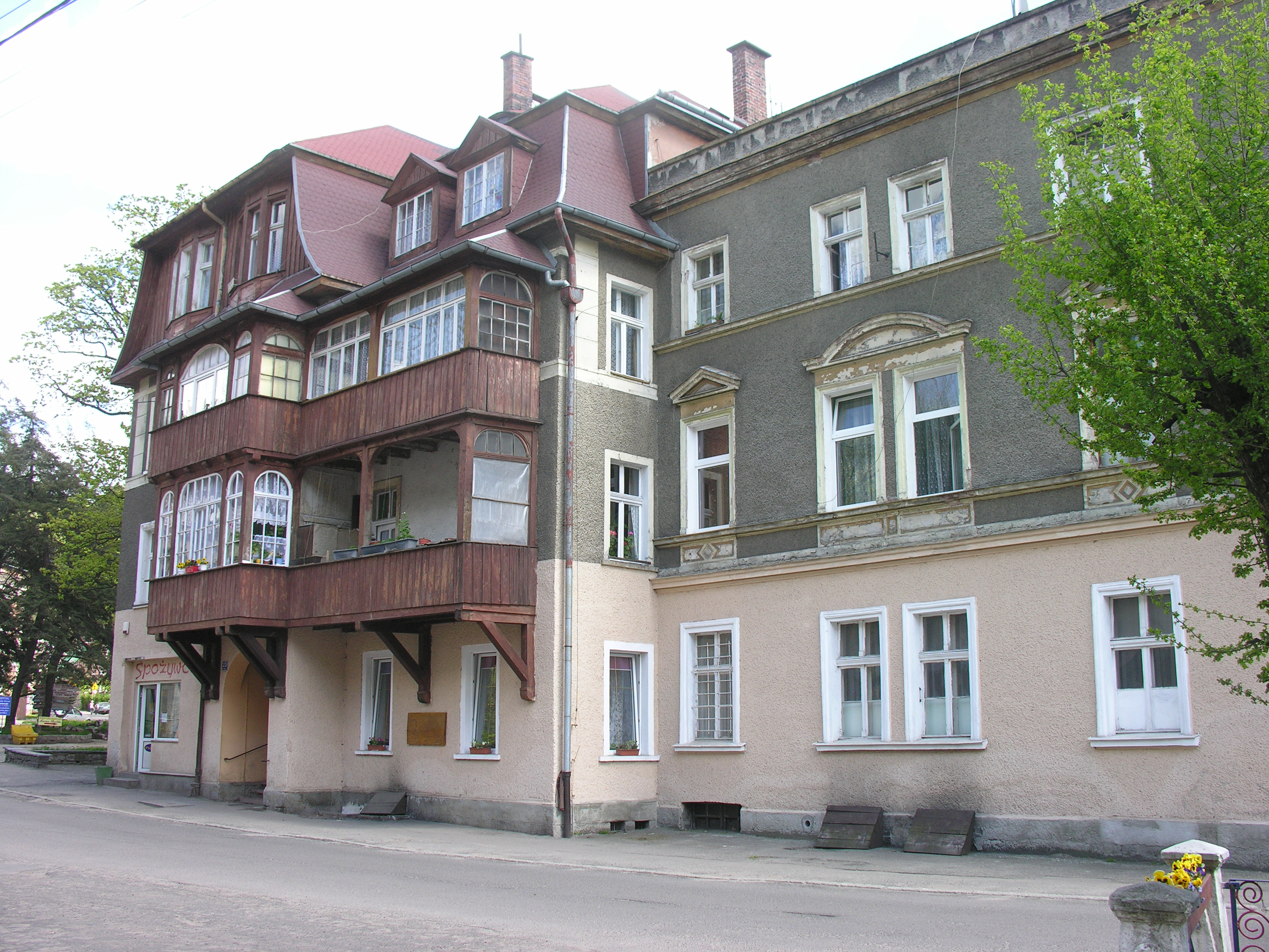 23 Główna Street in Sokołowsko - house of Krzysztof Kieślowski